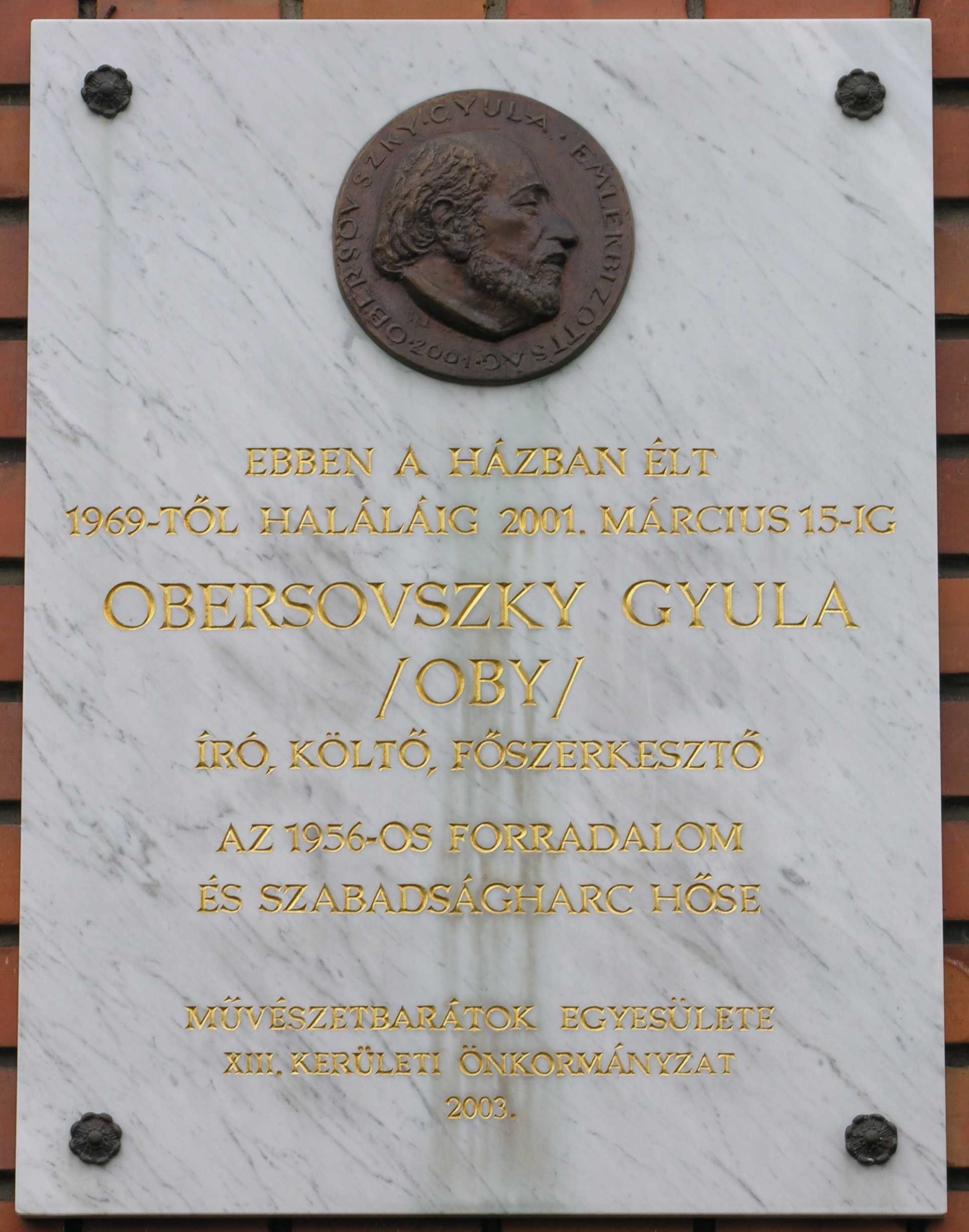 Commemorative plaque of Gyula Obersovszky in Budapest District XIII, Keszkenő Street No 35